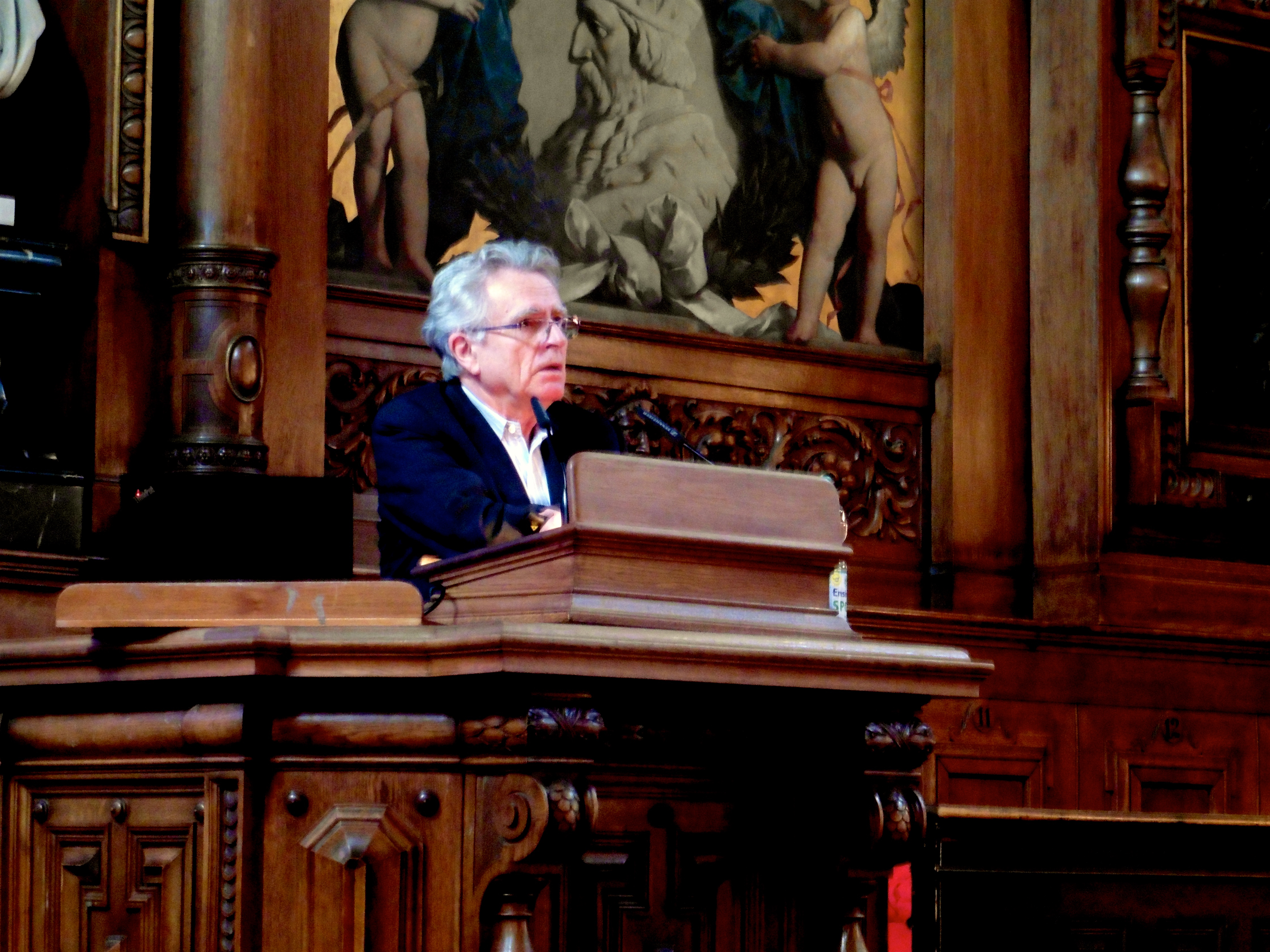 Prof. Niels Birbaumer Tübingen Eberhard-Karls-Universität